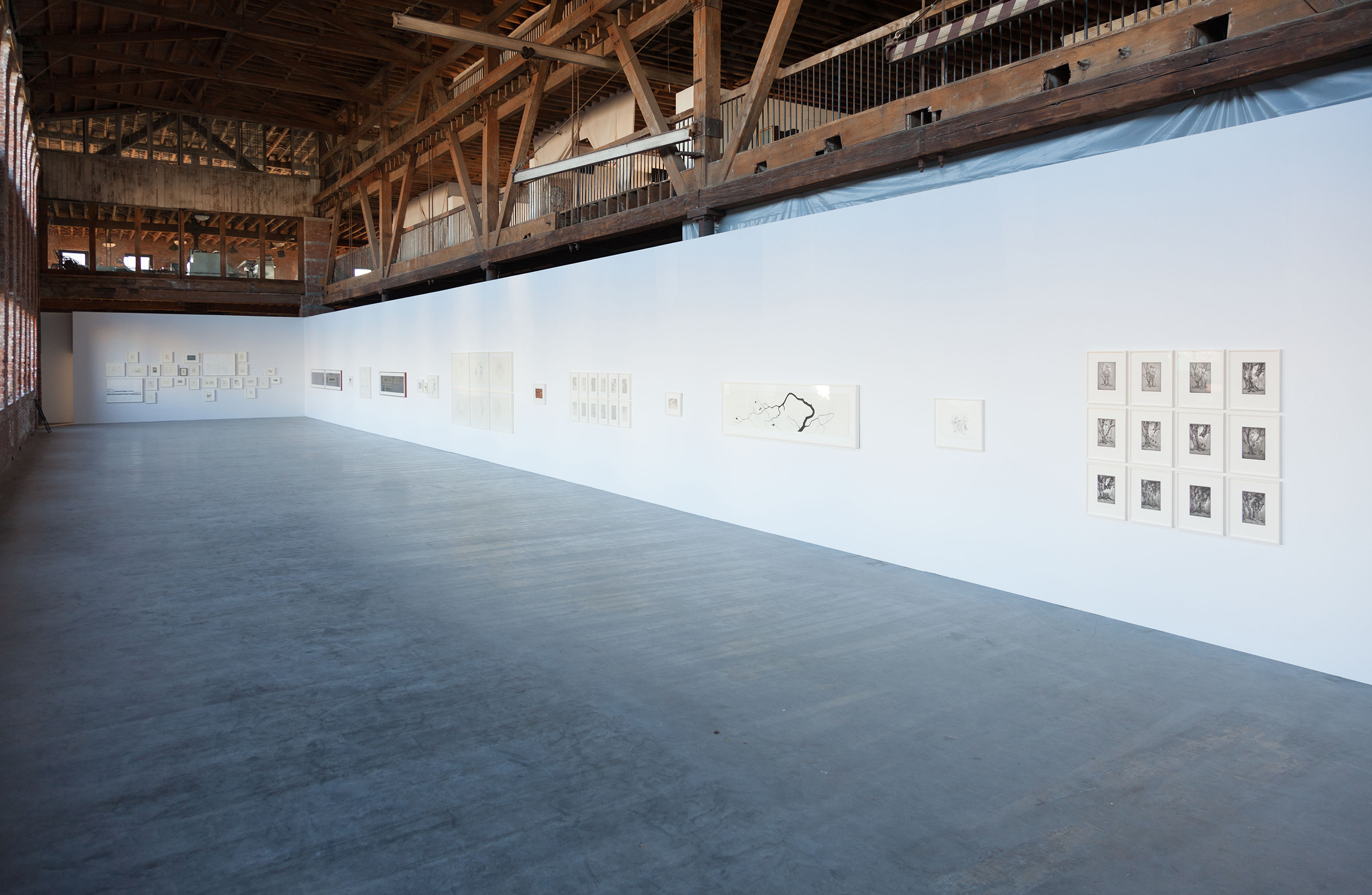 The main hall at Pioneer Works has hosted major art exhibitions and large scale concerts and events.